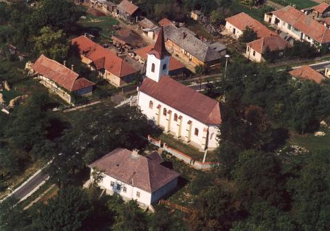 Krasznokvajda, Hungary, aerialphotography This is a photo of a monument in Hungary, Identifier: 2867